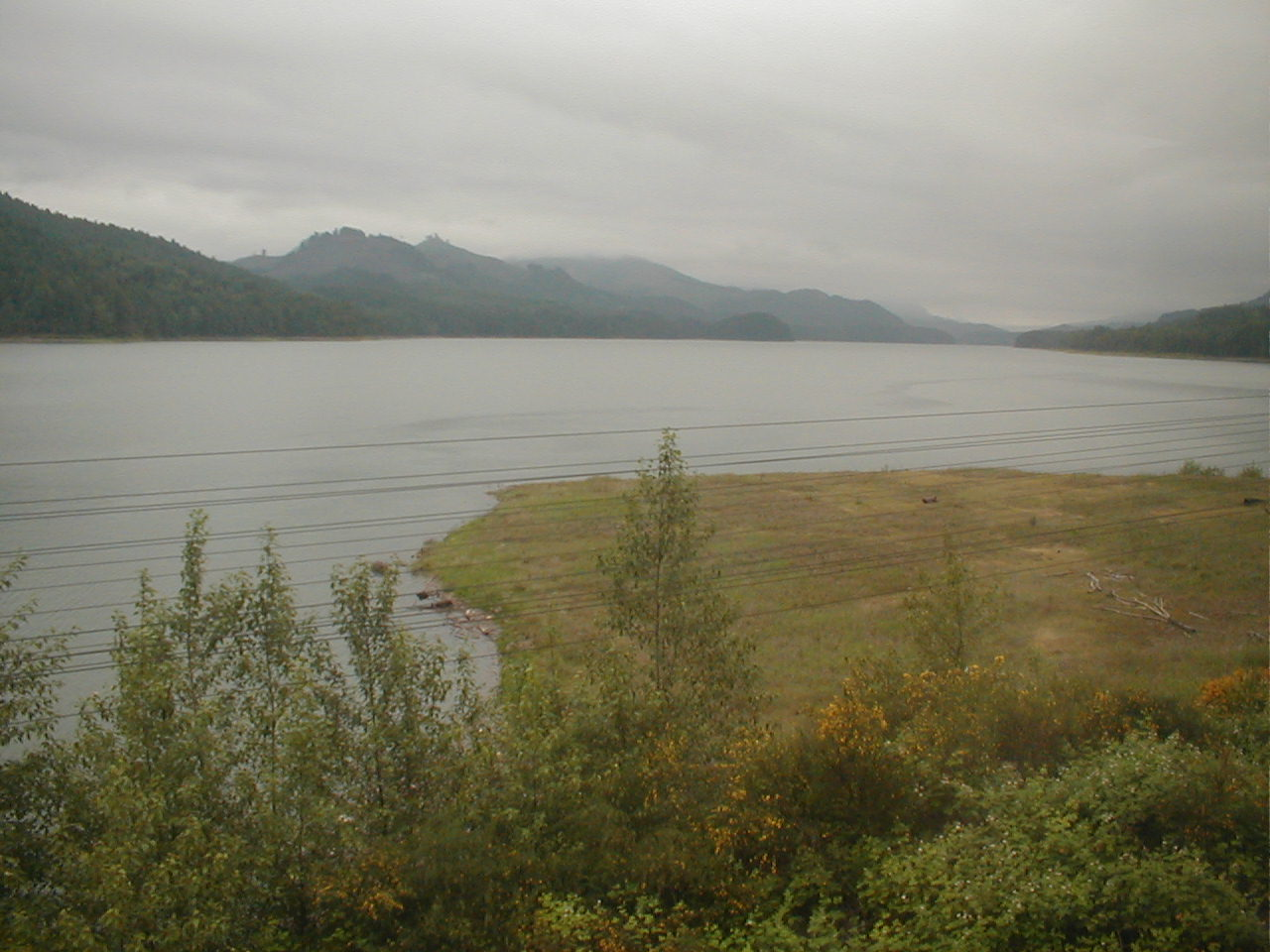 More Lookout Point Lake.